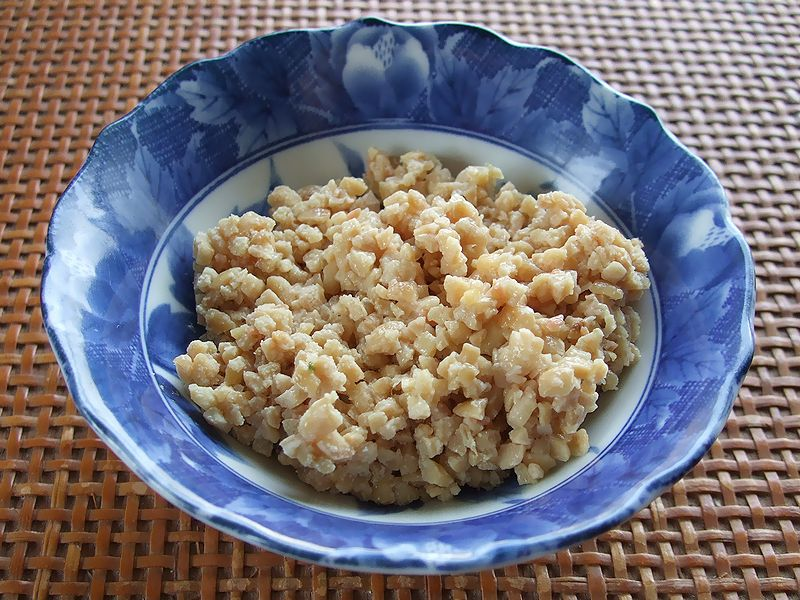 Hikiwari-Natto (crushed Natto)